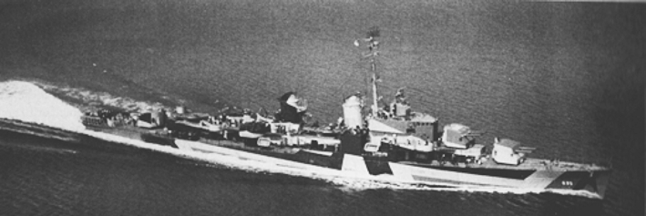 The U.S. Navy destroyer USS Cooper (DD-695) underway in mid- to late 1944. She is painted in Camouflage Measure 32, Design 3D.